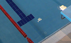 Swimming pool bottom with t-mark